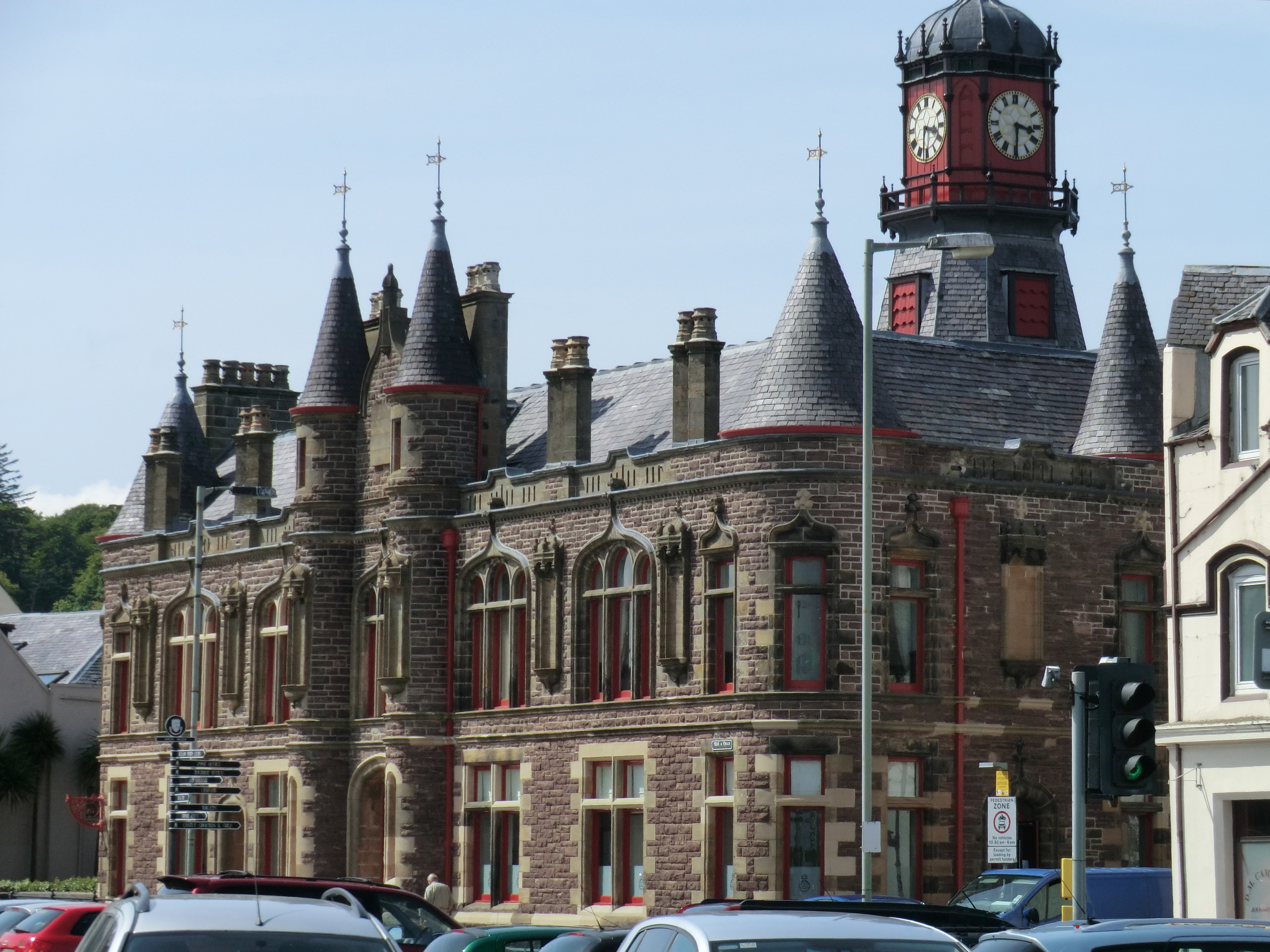 Public Library in Stornoway